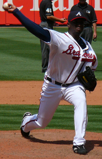 Picture I took of Rafael Soriano on 5-10-07 23:57,13 May 2007 . . Chrisjnelson . . 199×310 (111,897 bytes)